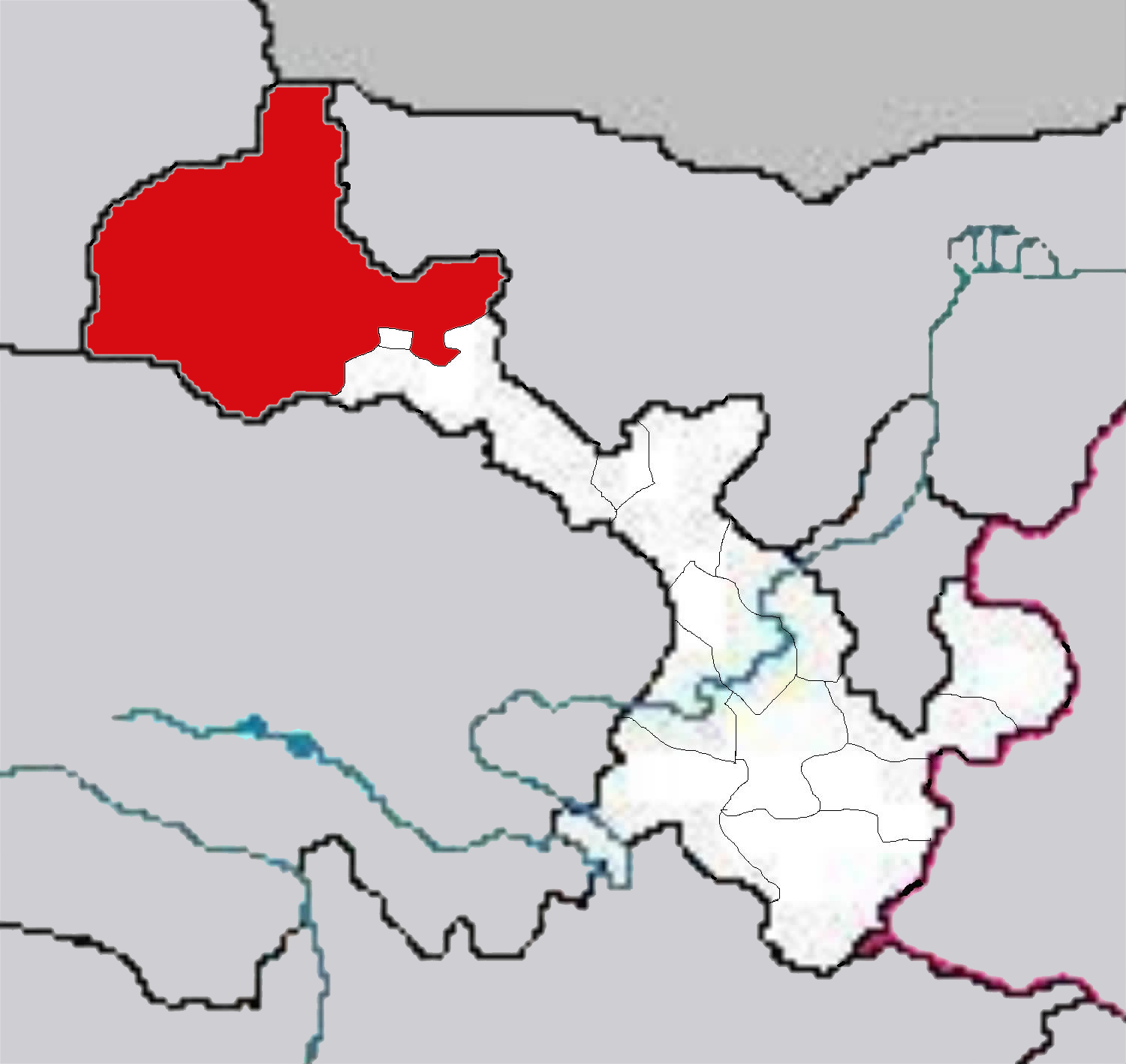 maps of Gansu Province of China